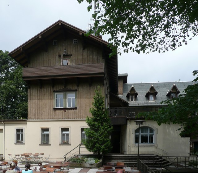 This image shows the restaurant and hotel on top of the Großer Winterberg (556 m) in the Saxon Switzerland.